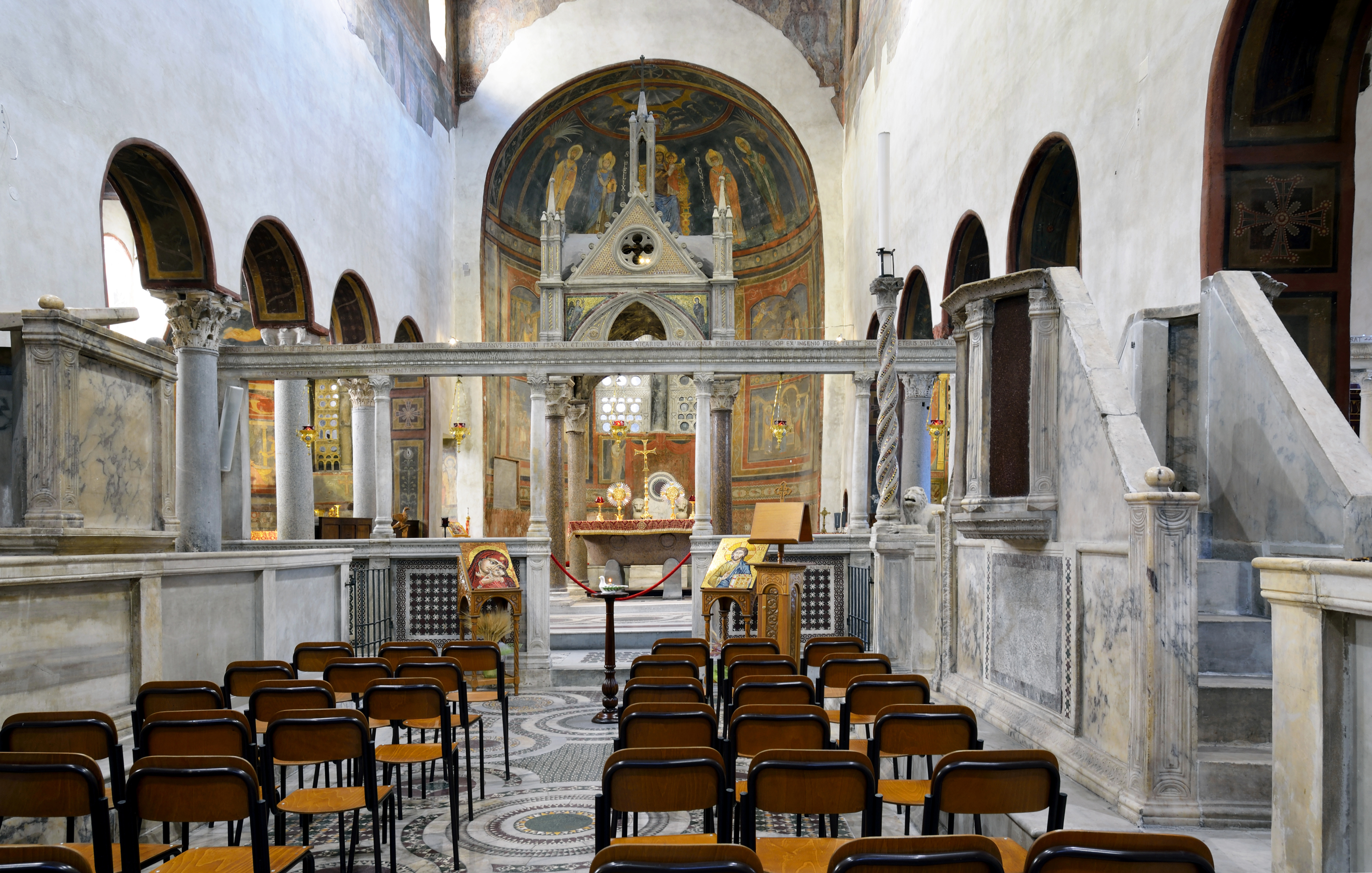 Santa Maria in Cosmedin (Rome) - Ciborium